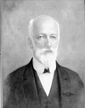 Friedrich (Federico) Hanssen, 1857–1919, German linguist